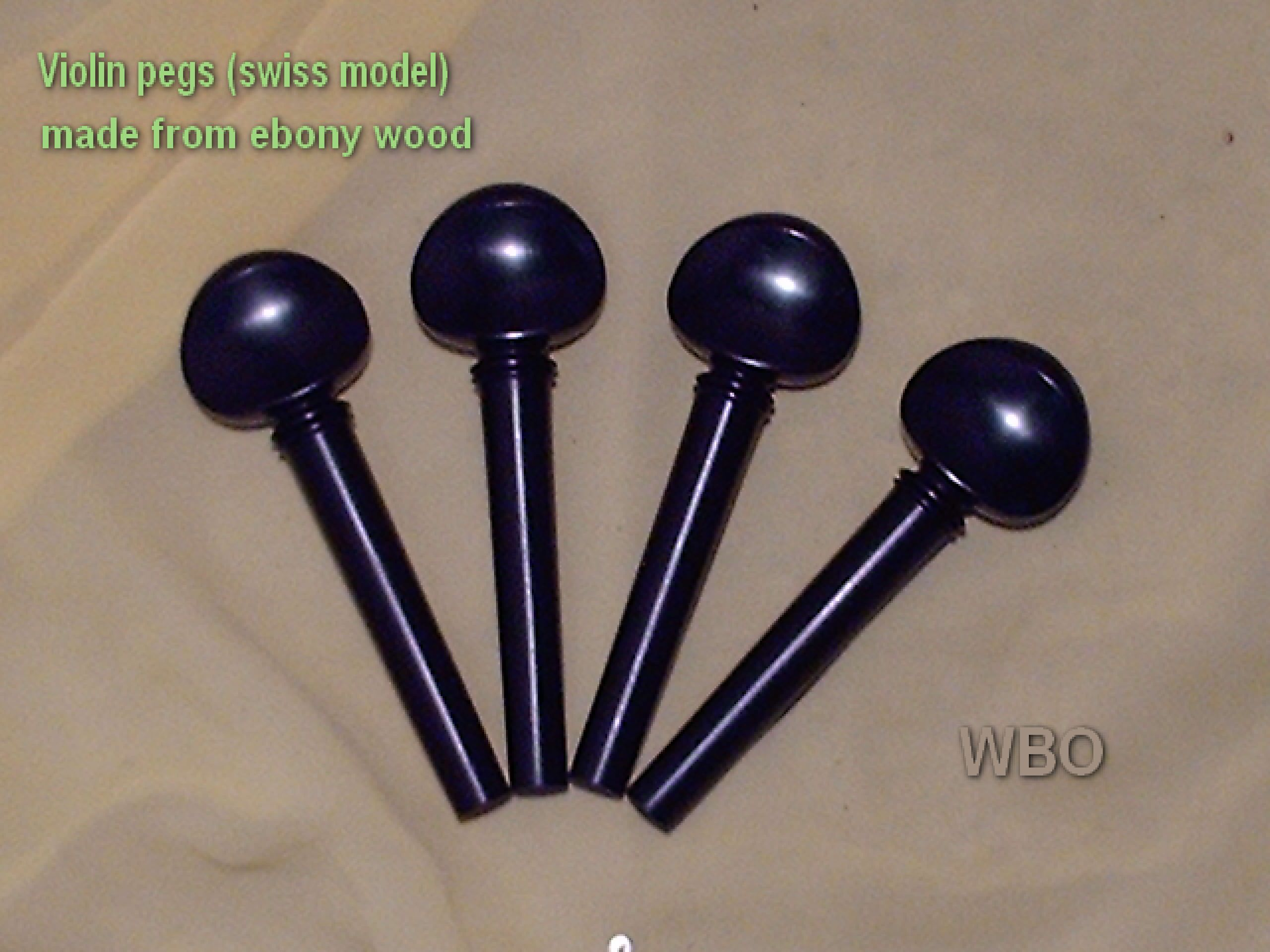 This file contains picture of a set of violin pegs that is used in making a violin. These pegs are mostly made from the ebony wood.